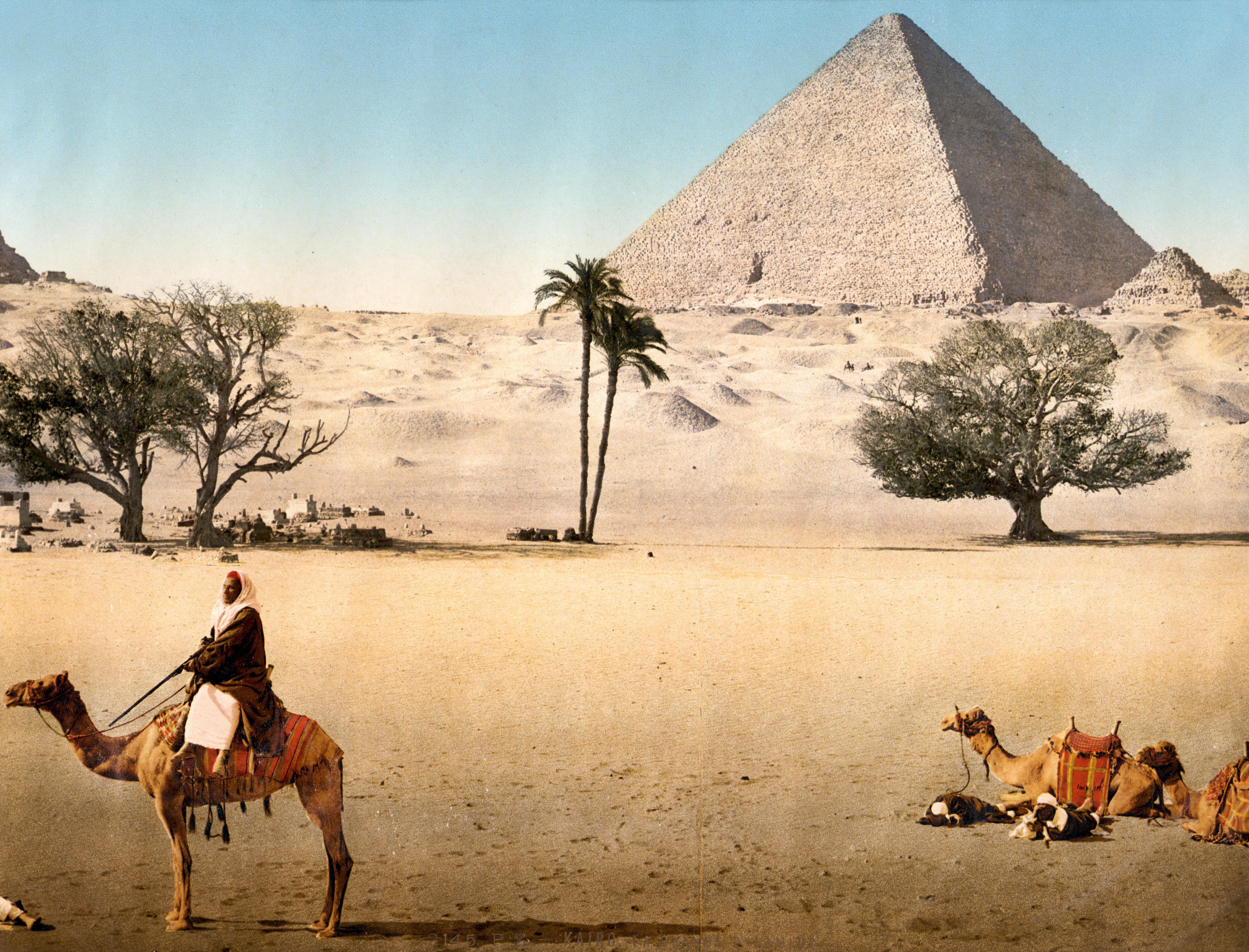 "Resting Bedouins and the Grand Pyramid, Cairo, Egypt"